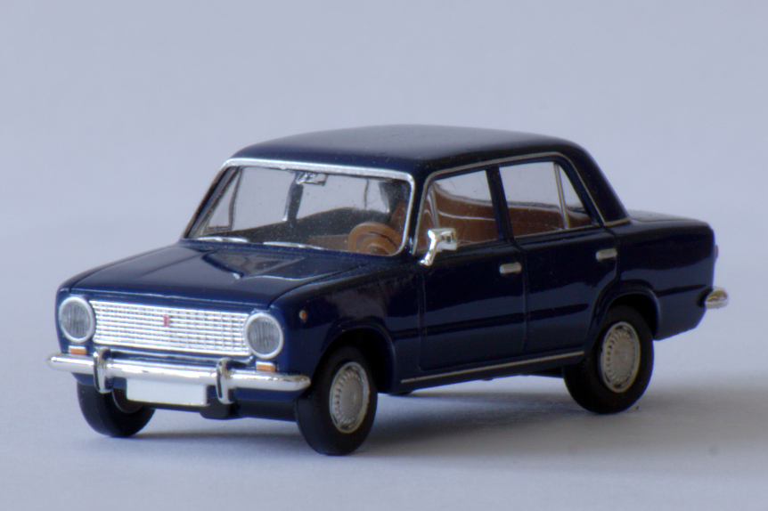 LADA 2101 MODEL